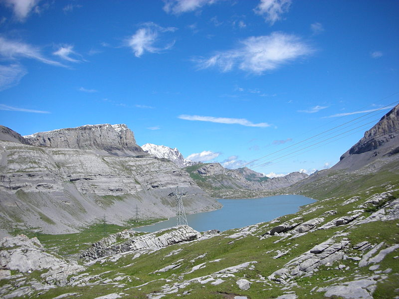 View of Daubensee from the Gemmi Pass